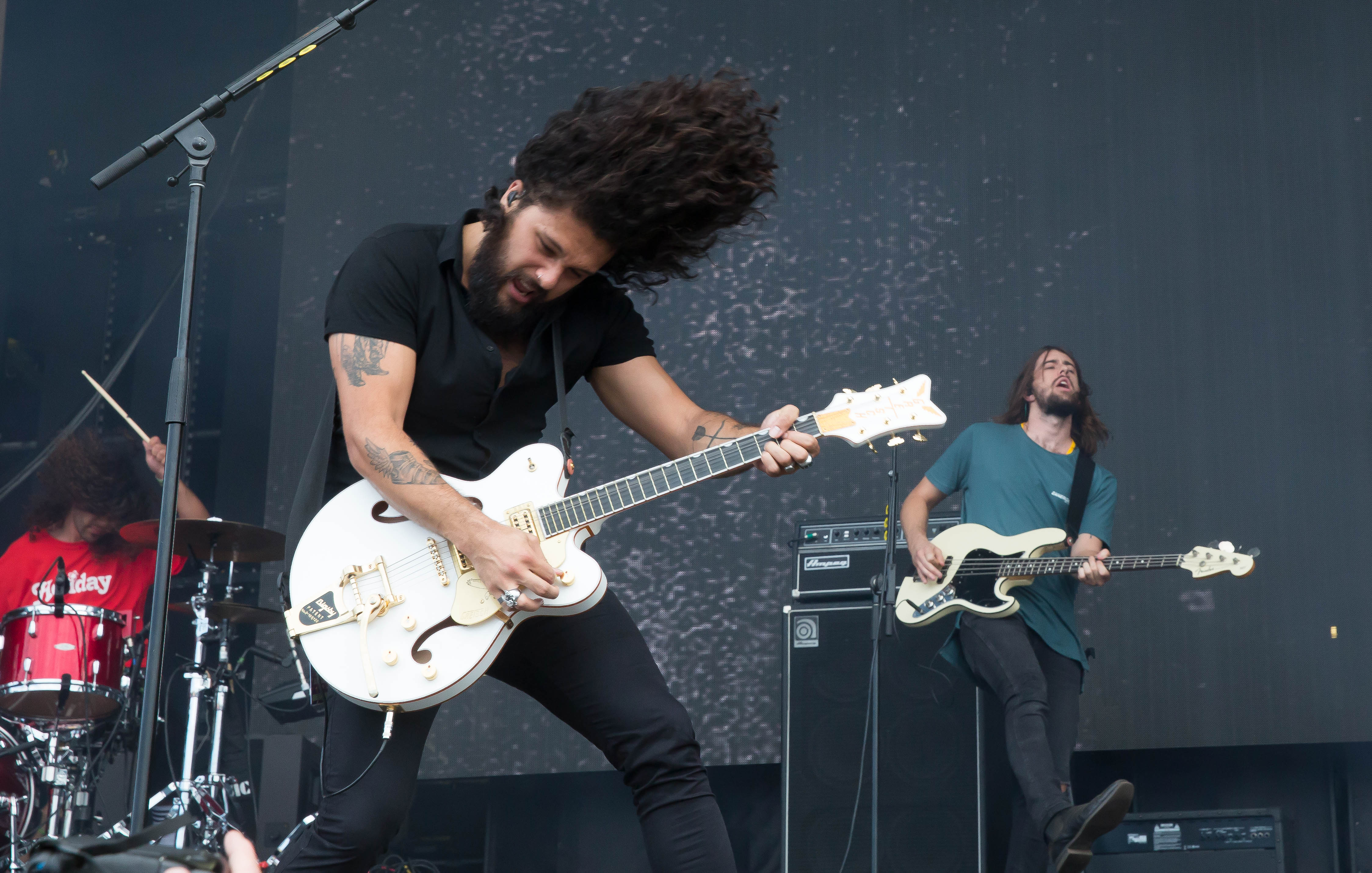 Gang of Youths performing at Sydney City Limits 2018